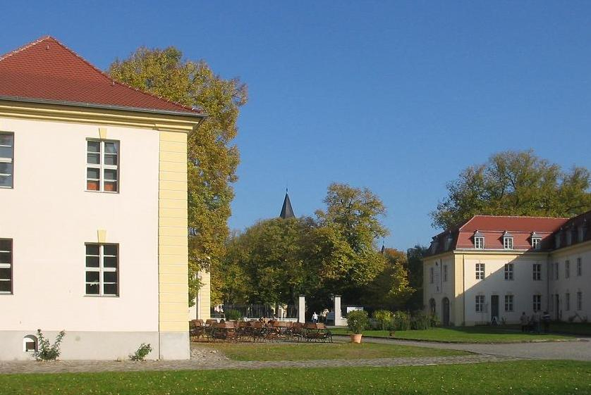 Kavaliershäuser (german for: buildings for the royal household) with castle’s courtyard of Schloss Königs Wusterhausen. The „Schloss“ is a renaissance-castle in Königs Wusterhausen, a town in the north of the district Dahme-Spreewald in Brandenburg, Germany. The castle was built in the 16th century and was used by Frederick William I of Prussia as hunting lodge.